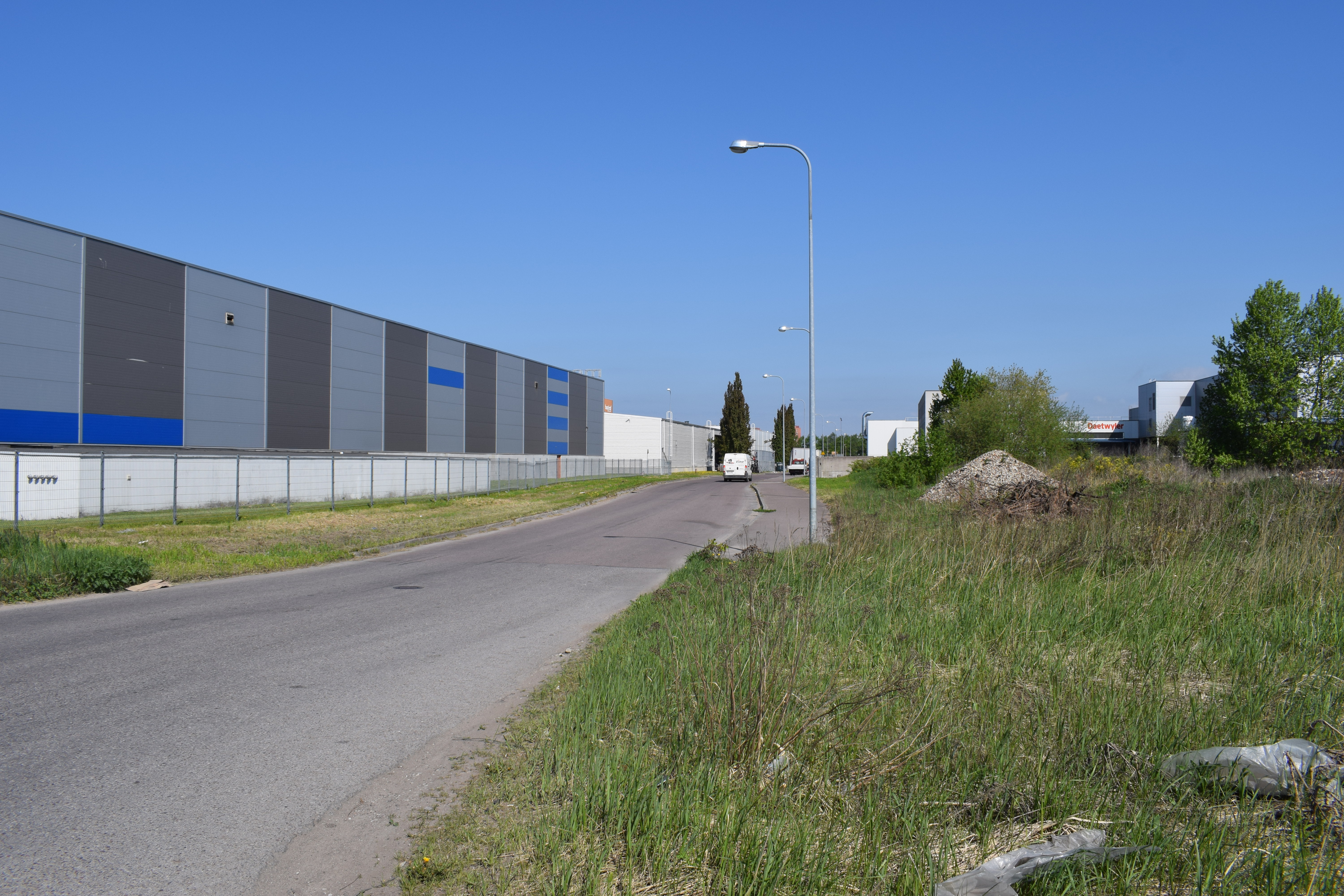 Silde street